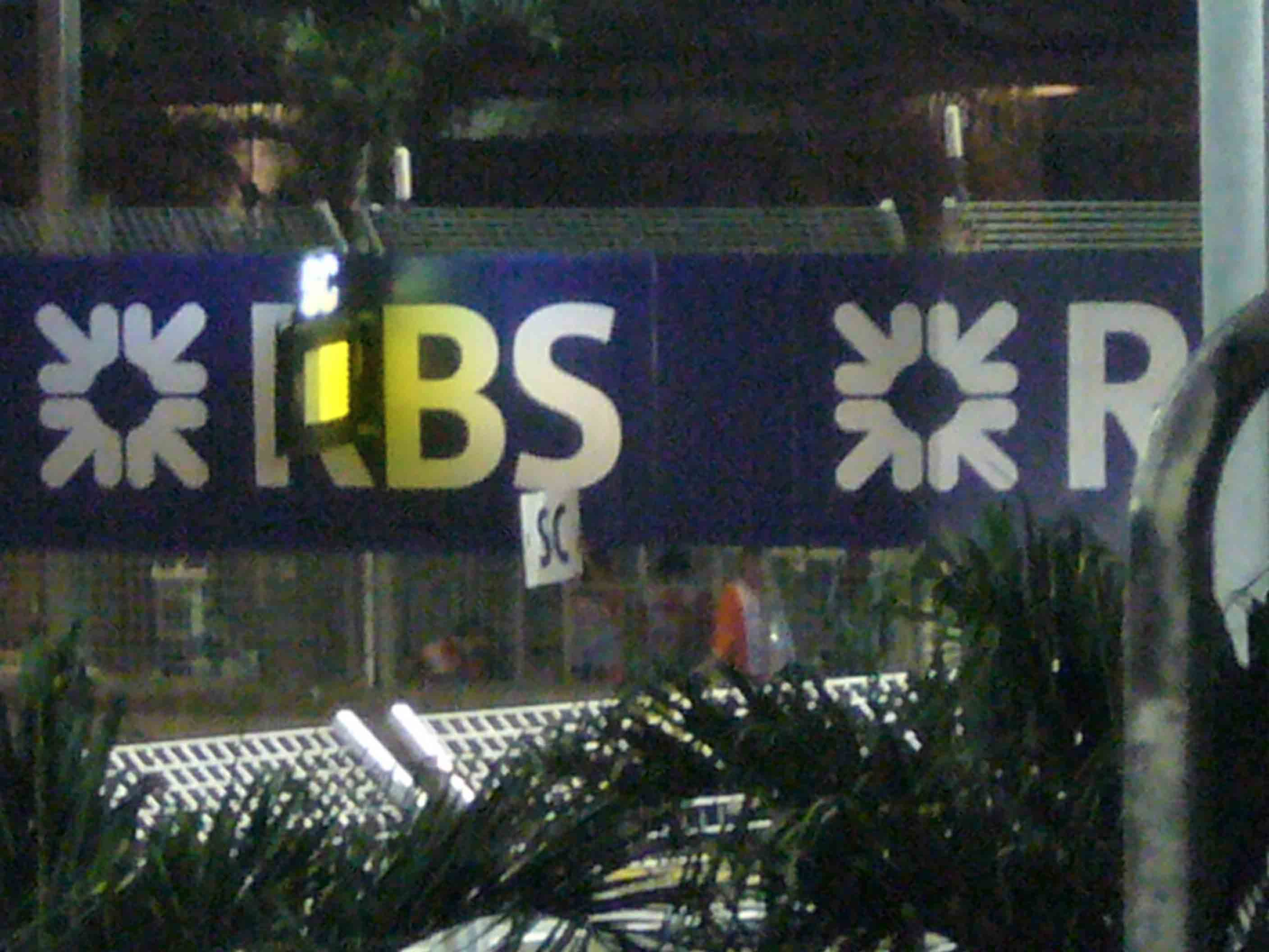 Digiflag in use at the 2008 Singapore Grand Prix, at turn 9 of the Marina Bay Street Circuit